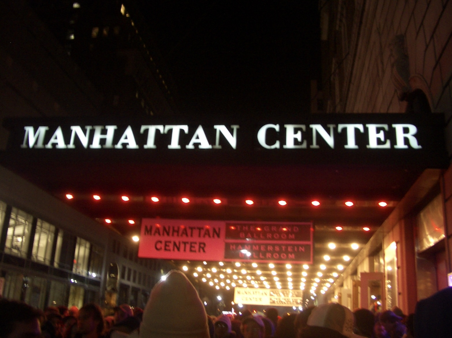 Hammerstein Ballroom @ Manhattan Center, New York City